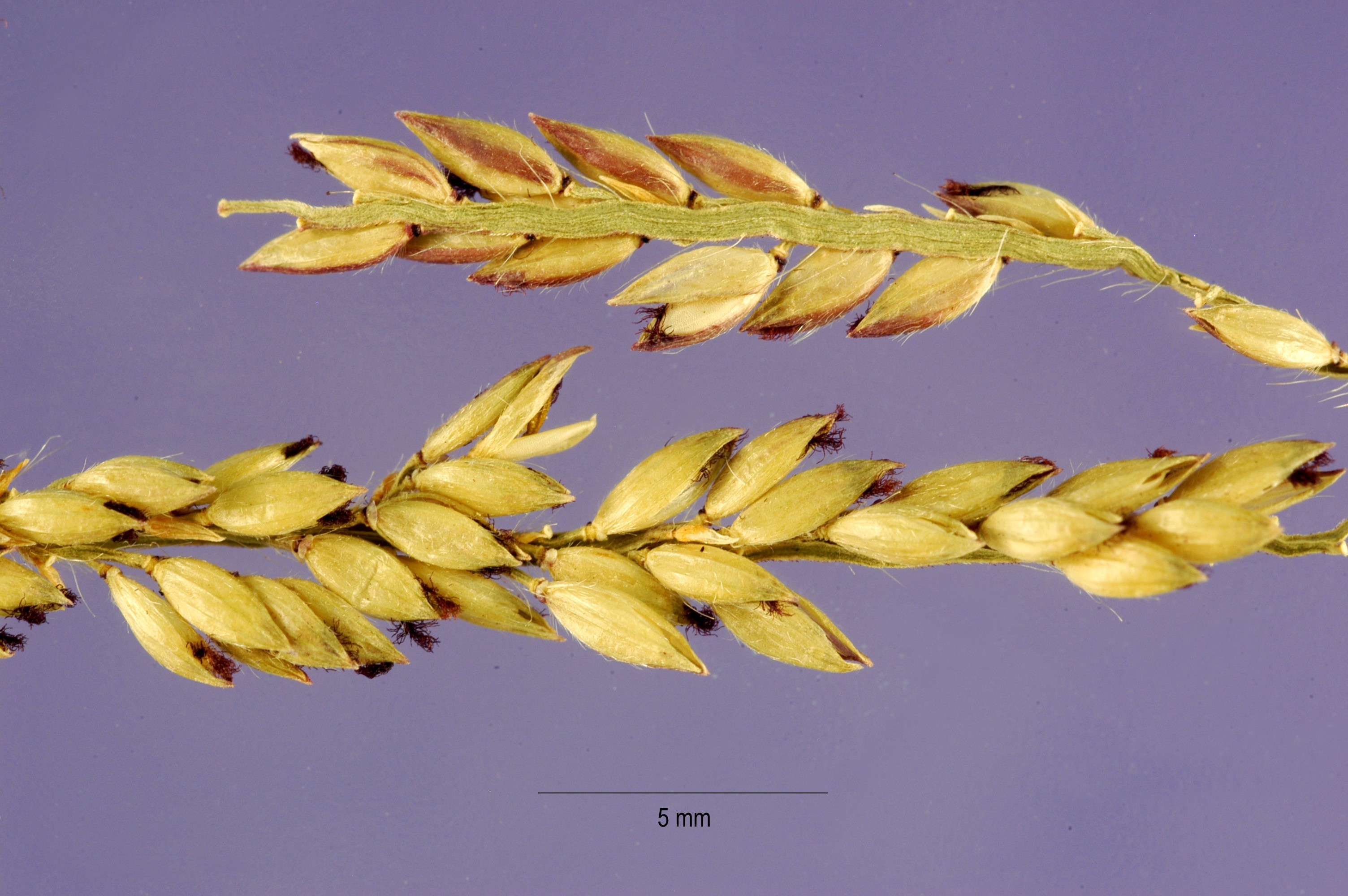 Eriochloa polystachya Provided by ARS Systematic Botany and Mycology Laboratory. Colombia, Cali.